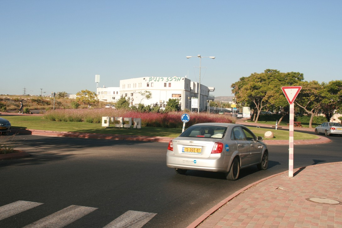 The welcome sign at the enter to Maccabim.